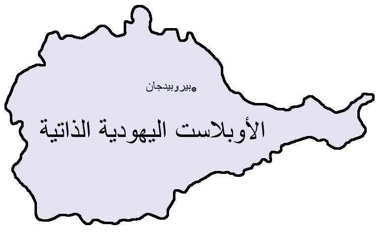 Arabic version of the map of the Jewish Autonomous Oblast in Russia.